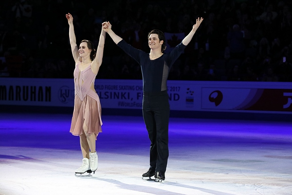 Tessa Virtue and Scott Moir at the 2017 World Championships